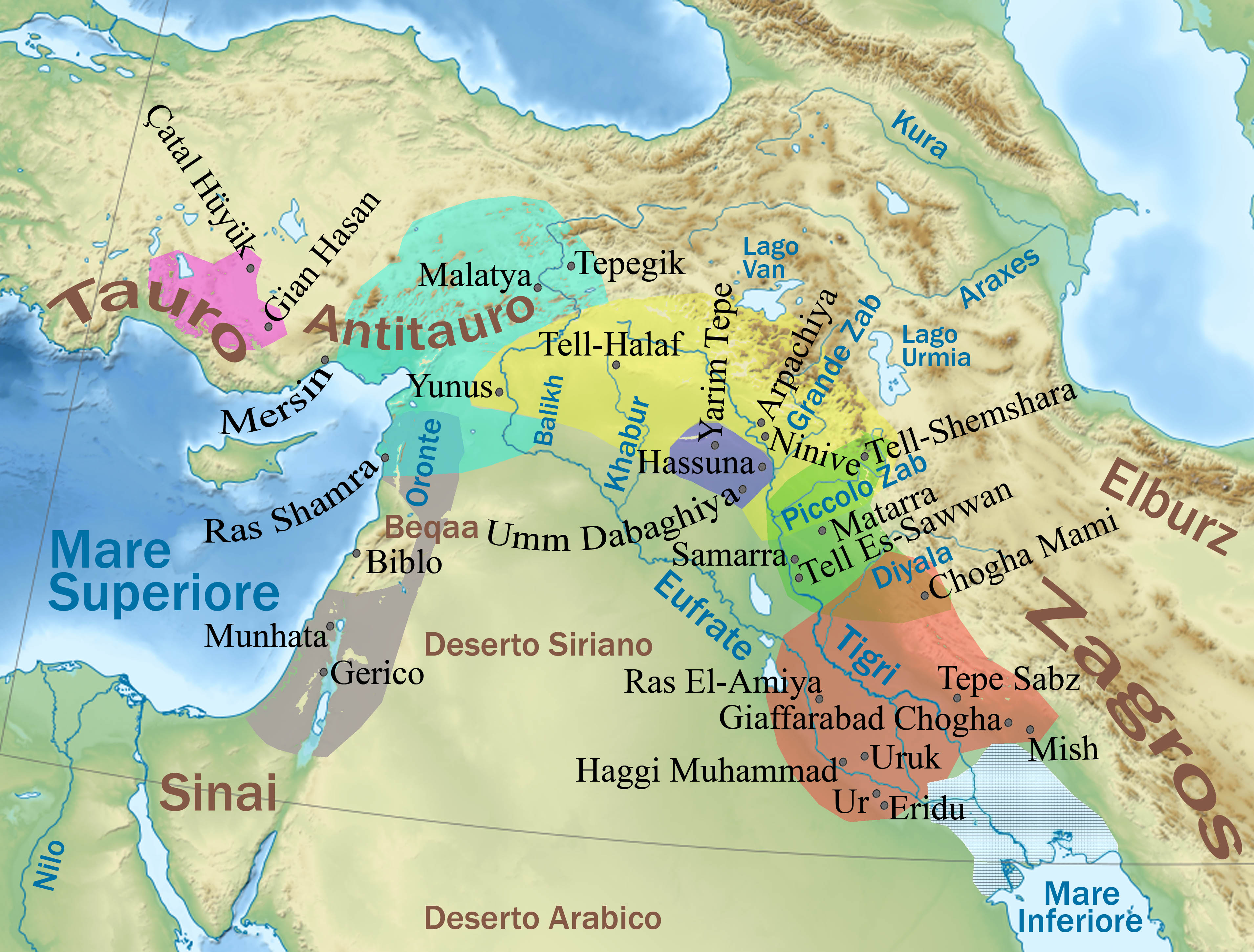 Physical map of the ancient Near East with cultures of the Middle Halaf period (more info in the Italian description)